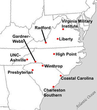 Locations of Big South Conference full member institutions. Personal creation in Photoshop; All rights released to the public to do whatever they want with it.